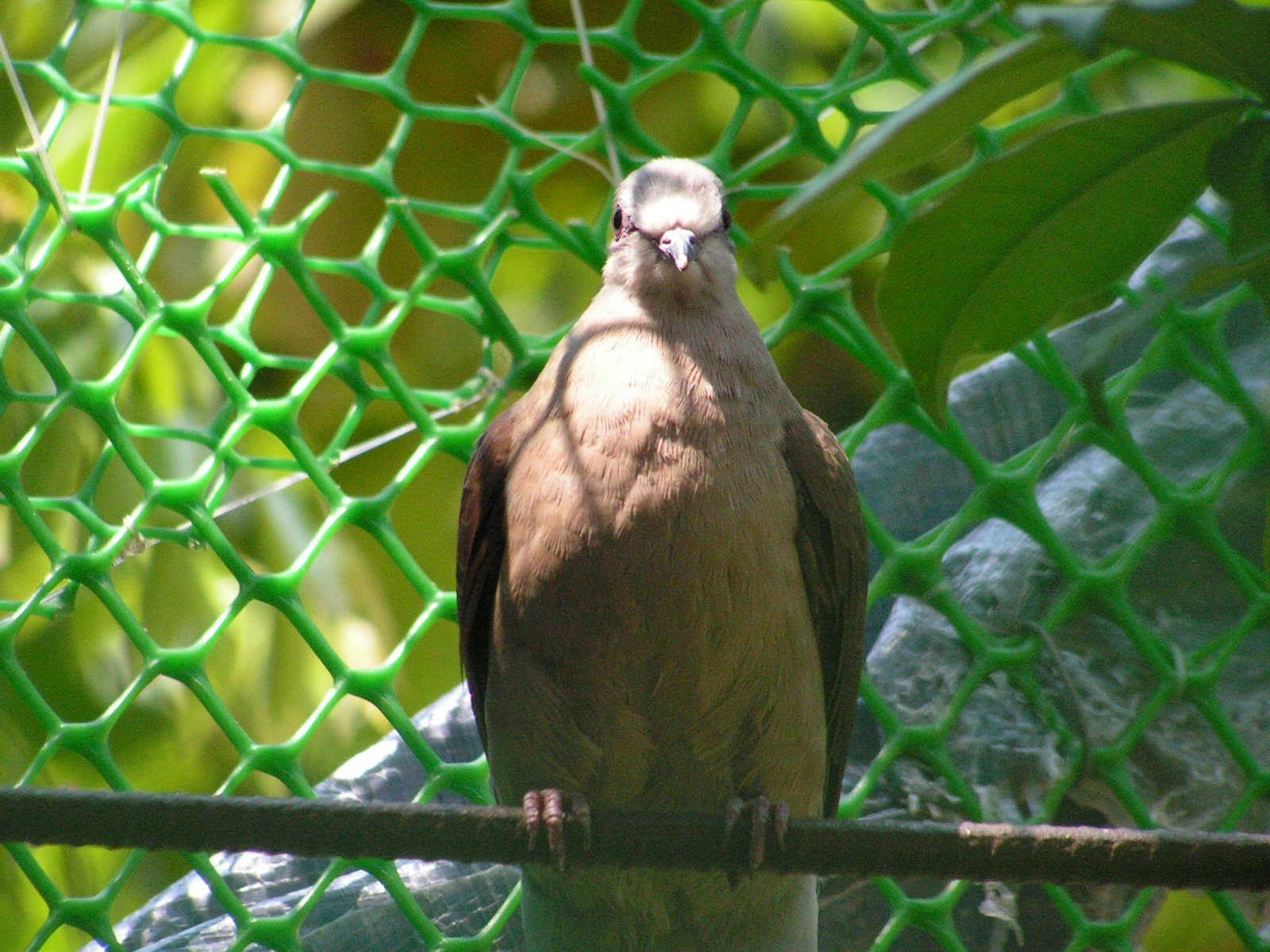 Island Collared Dove (Streptopelia bitorquata) (tocmo in local dialect) in Bohol, Philippines